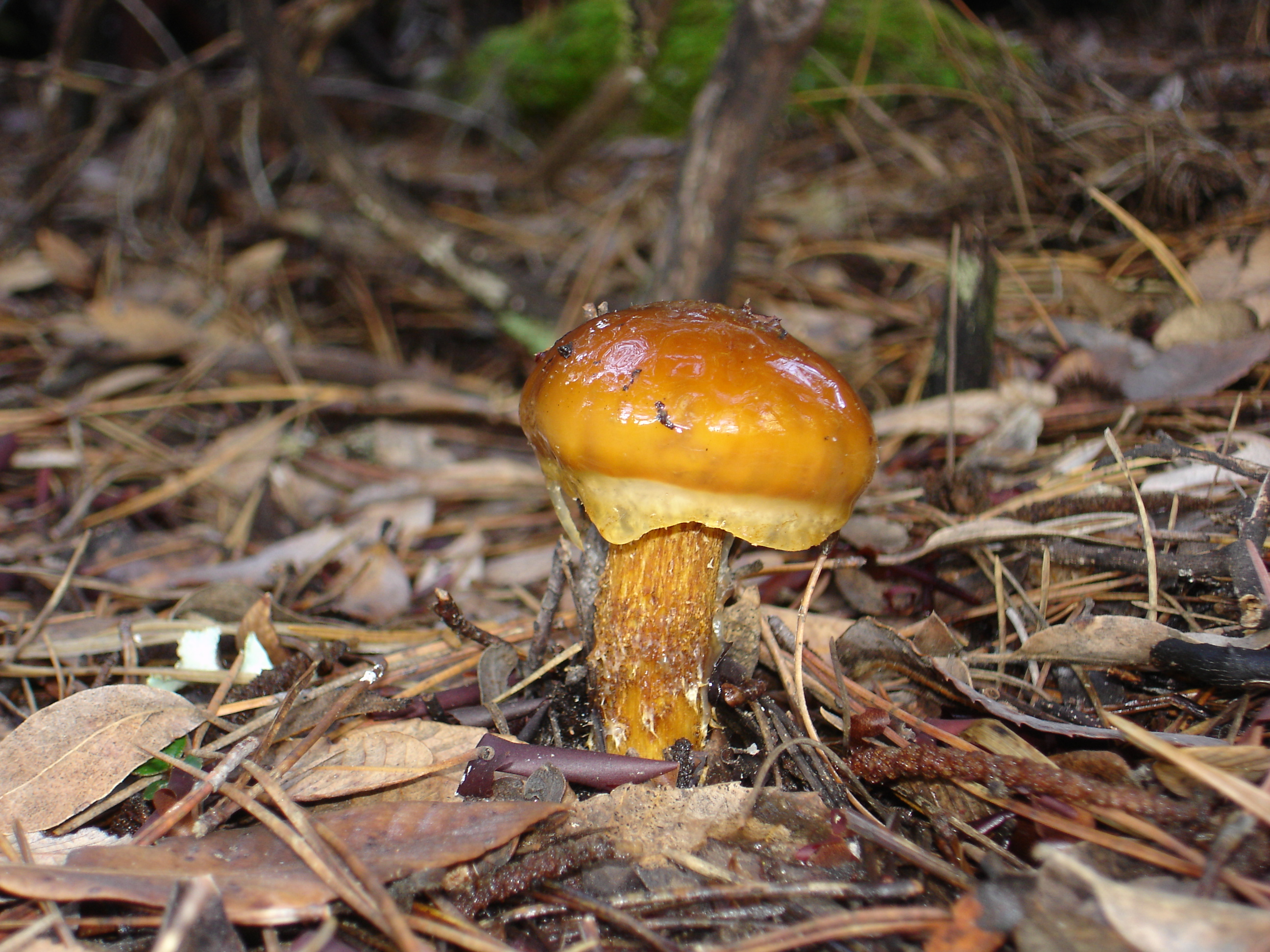 Cortinarius mucosus from Anchor Bay, California, USA